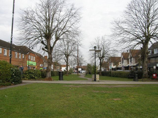 Looking north along this shopping street in central Thatcham. The Broadway has a small green between the two carriageways, and is lined on either side by shops.